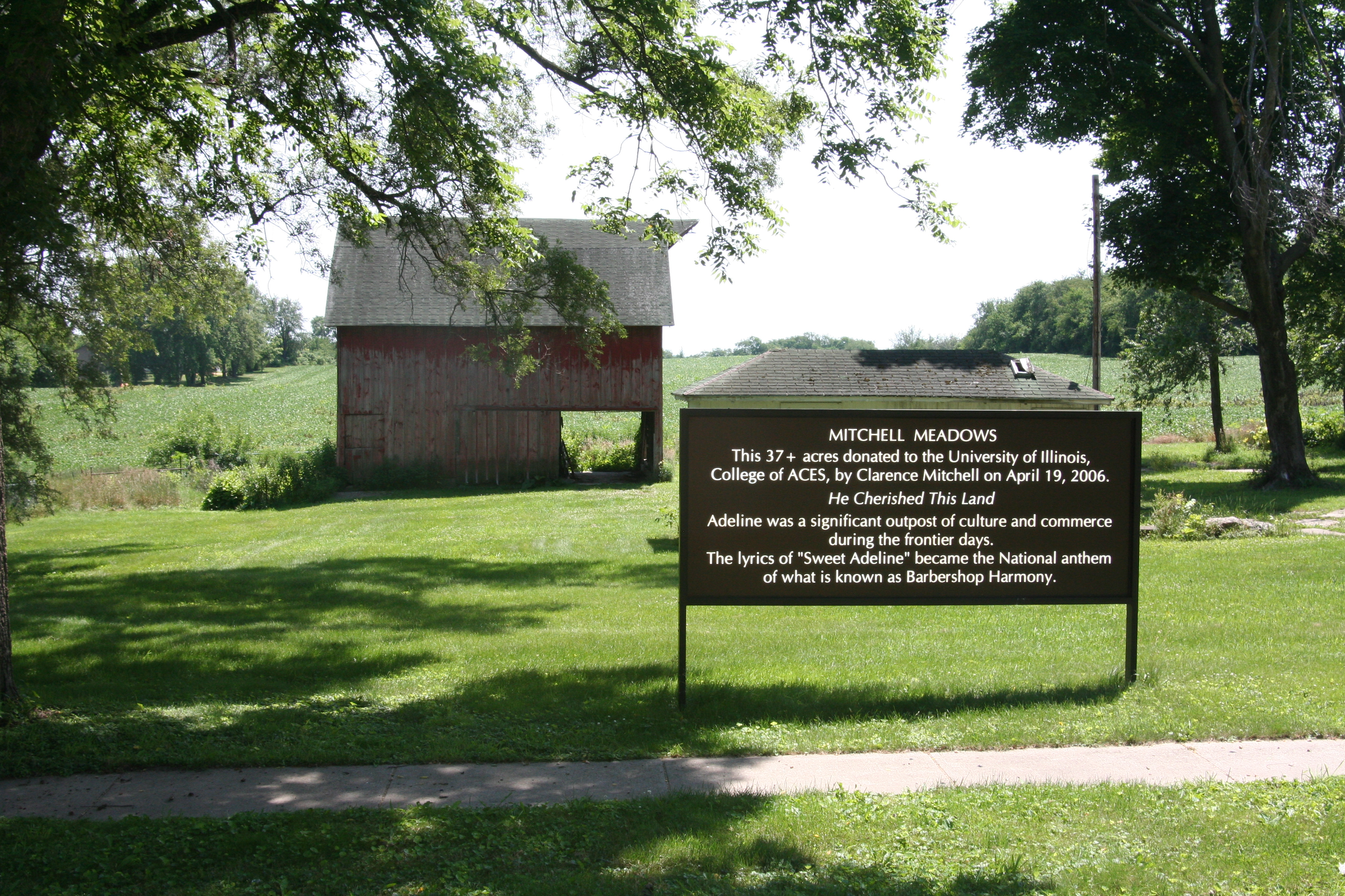 Picture of Mitchell Meadows in Adeline, Illinois, USA.